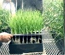 Agrihouse 14:22, 21 January 2007 (UTC)